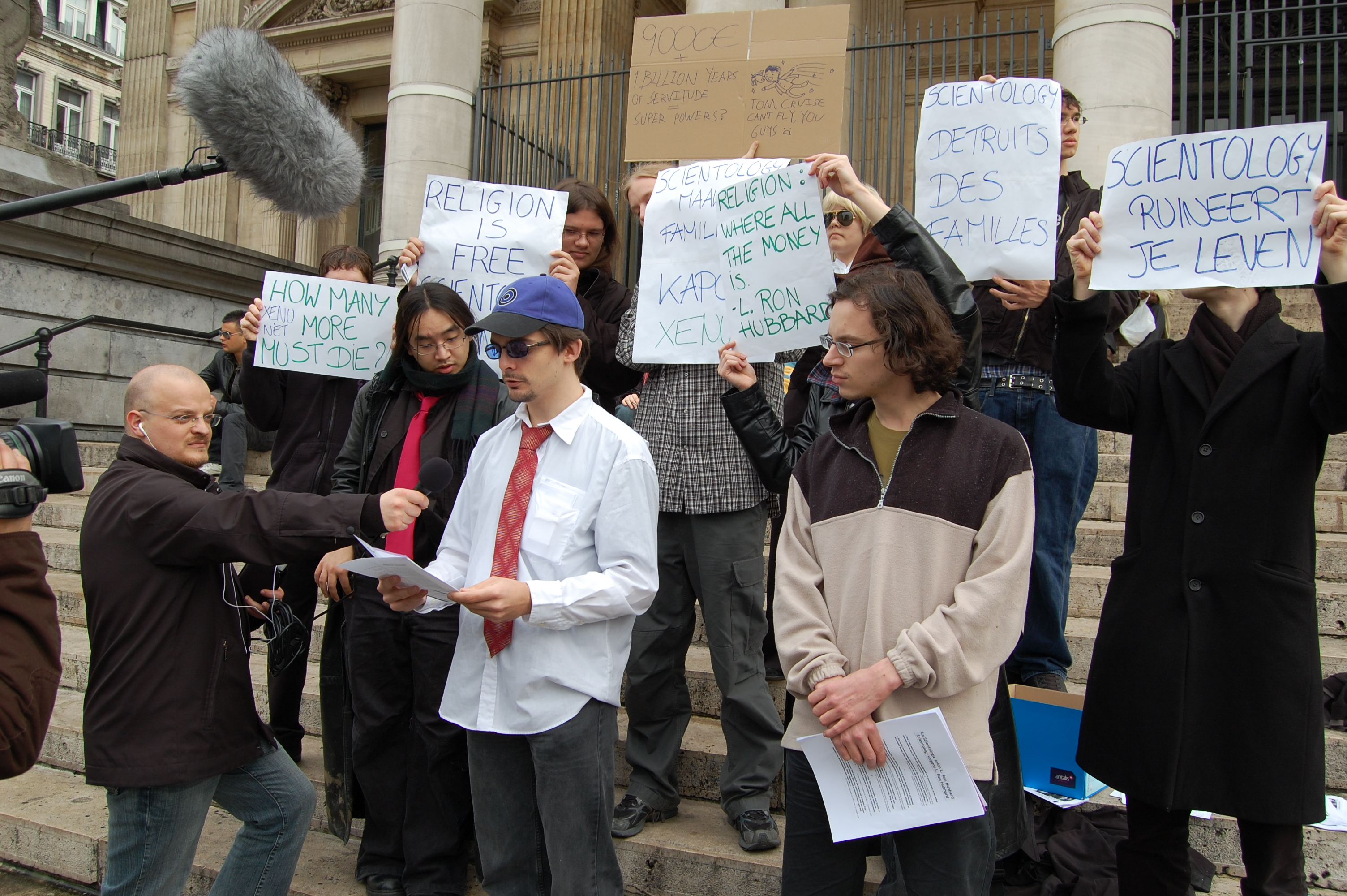 Image from the Brussels "Anonymous" protests against Scientology at the Brussels Stock Exchange.